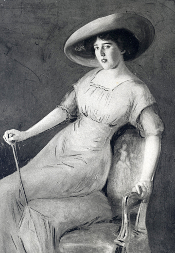 John Trullinger painted this oil portrait of Louise Bryant, the wife of his cousin Paul Trullinger, in 1913.